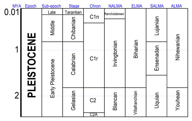 A comparison of various schemes for subdividing the Pleistocene epoch.